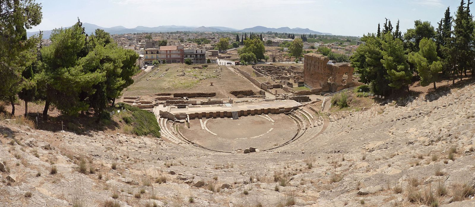 The Theatre of Ancient Argos - more information visit Ploync